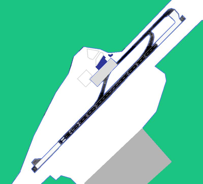 the new runway of Comiso-Ragusa airport in Sicily of 2546m